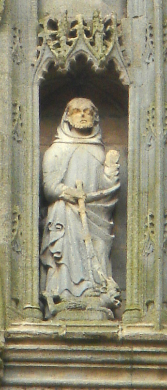 Saint Guthlac holding the scourge (whip) given to him by Saint Bartholomew and a demon at his feet. The statue from the second tier of the Croyland Abbey's west front of the ruined nave; dates from the XVth century.